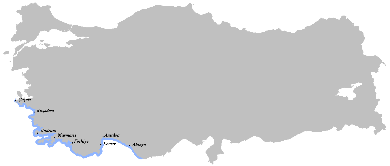 Map showing the Turkish Riviera region and major resort towns.